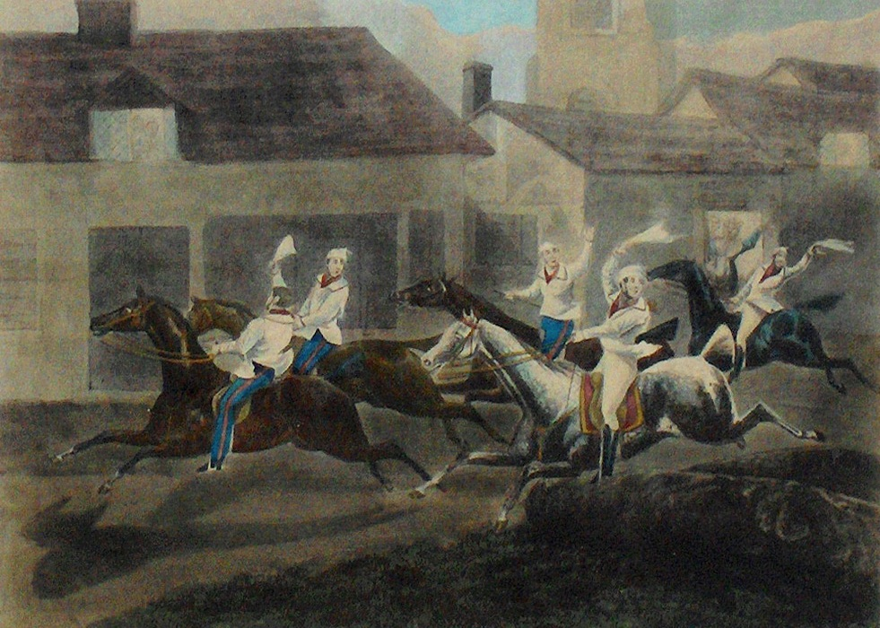 "The lads from the village" - the first recorded steeplechase 1830